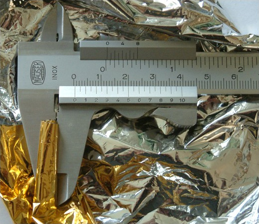 PET-foil (Mylar). Thickness of 32 sheets: 0.45mm